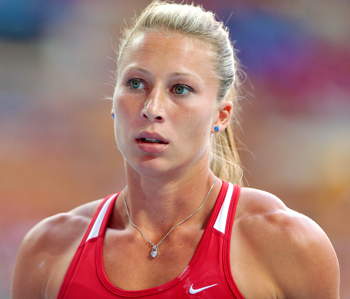 Jirina Ptacnikova-Svobodova at 2013 World Championships in Athletics